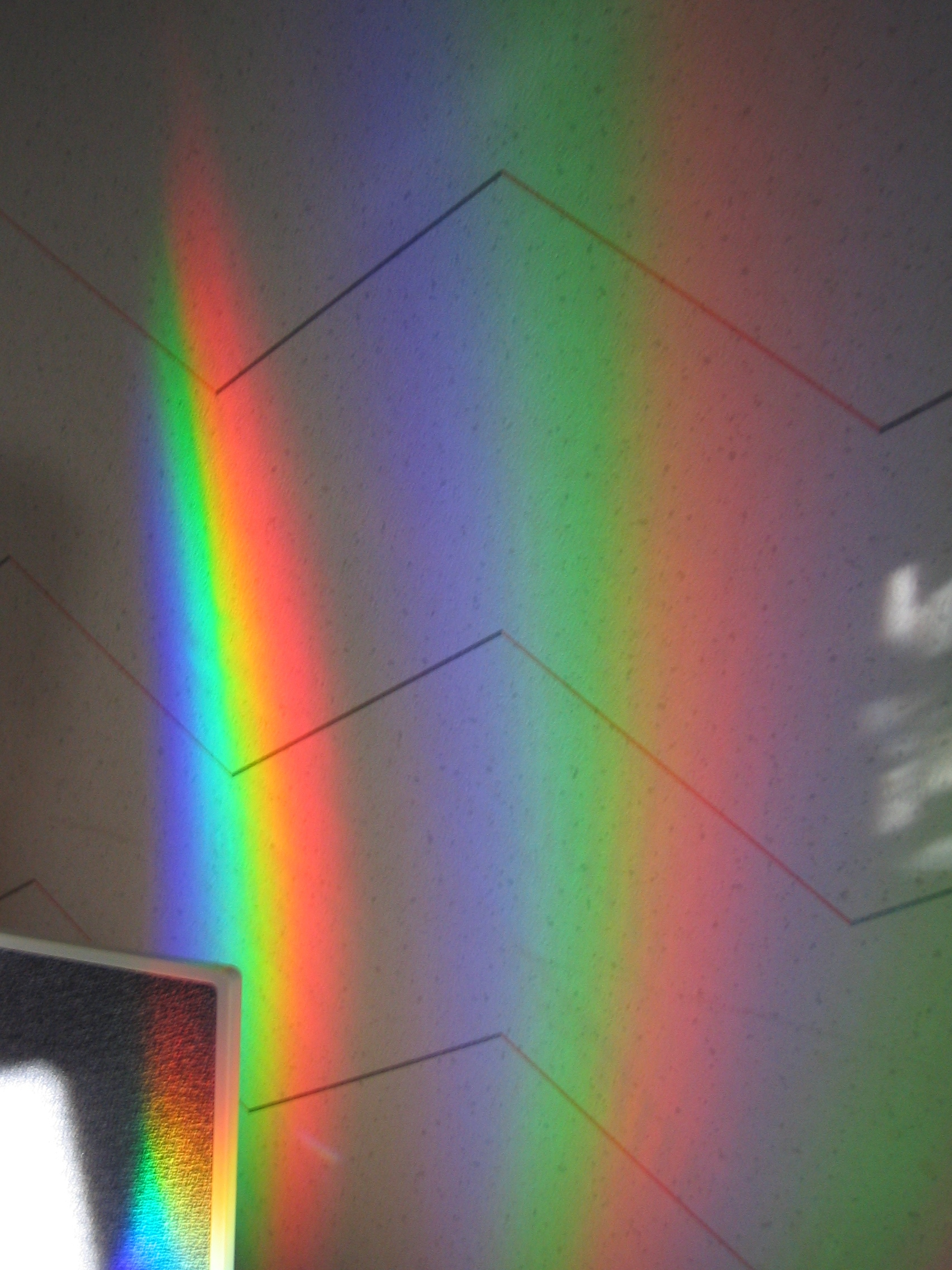 Optical dispersion; photo taken by me, Andreas Rejbrand.